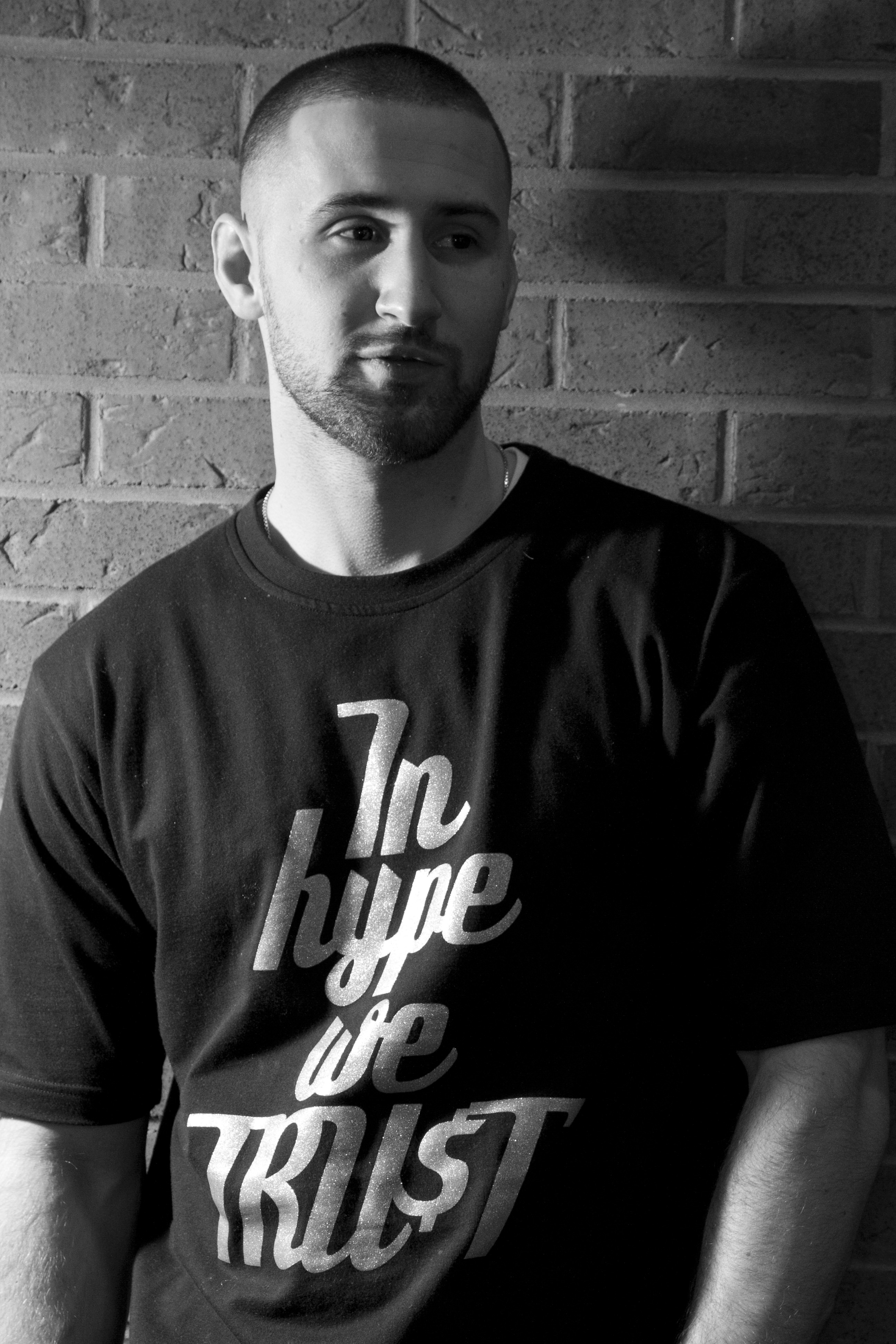 Aspektz Photo Credit B. Ruelens